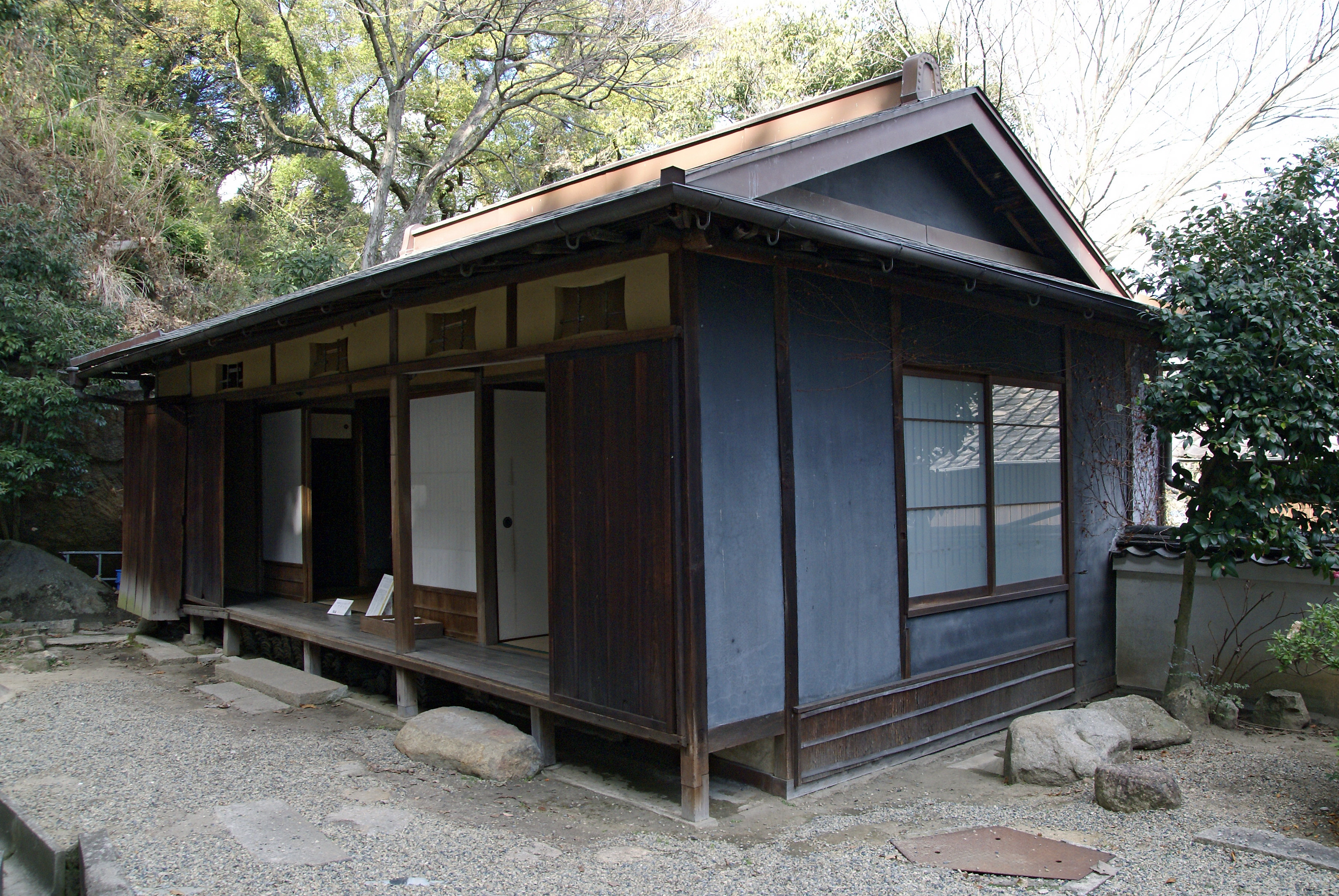 A Mansion of Literature Onomichi "Kenkichi Nakamura House" in Onomichi, Hiroshima prefecture, Japan